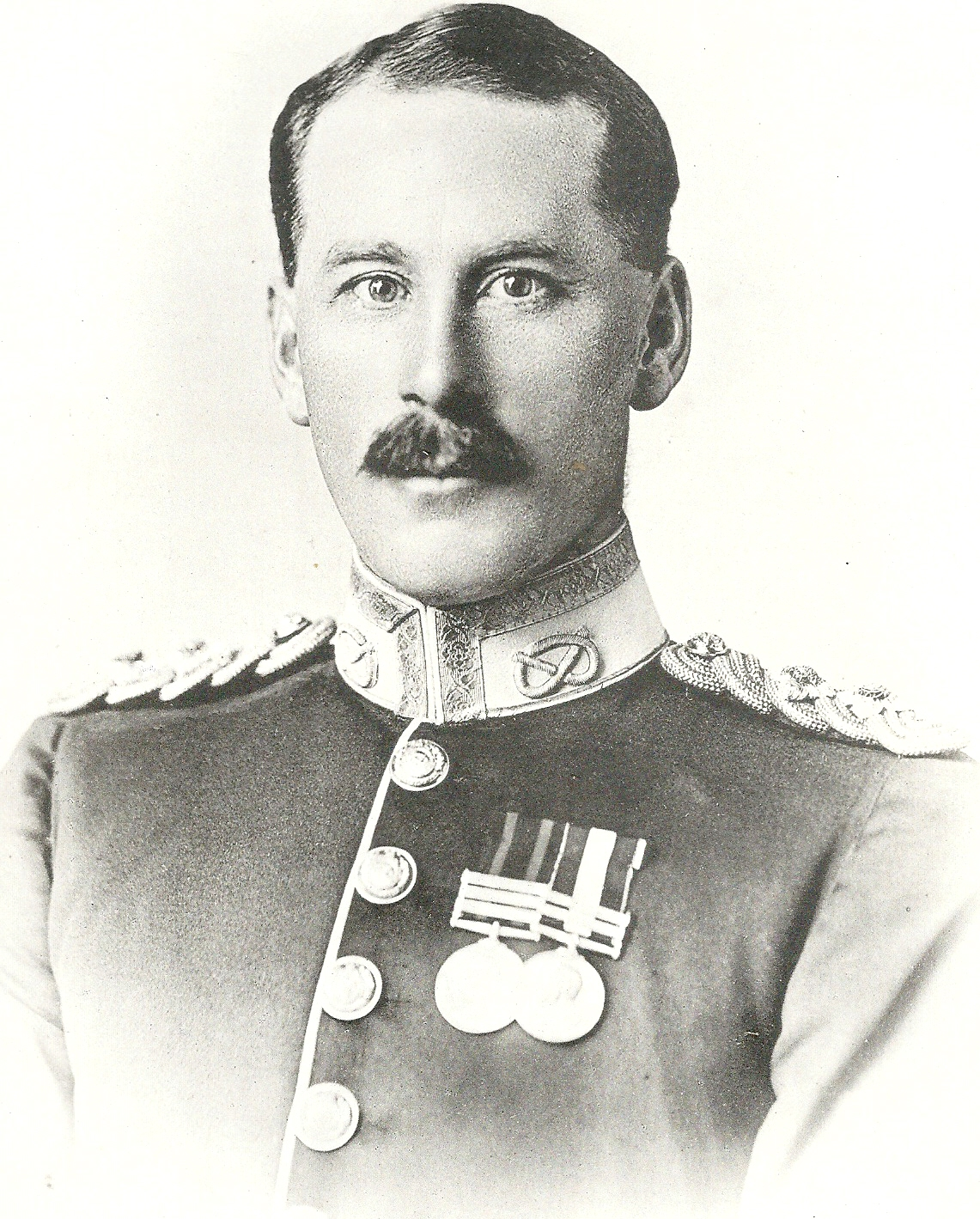 Lt Charles Harry Lyon, adjutant of the 2nd Battalion The Prince of Wales (North Staffordshire Regiment) Multan, India 1908.